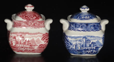 Two Sugarbowls of the "River Scene" Series, left (red) from Wedgwood & Co. Ldt (between 1900 and 1965), right (blue) from Enoch Wedgwood (Tungstall) Ltd. (from 1965 till 1980).